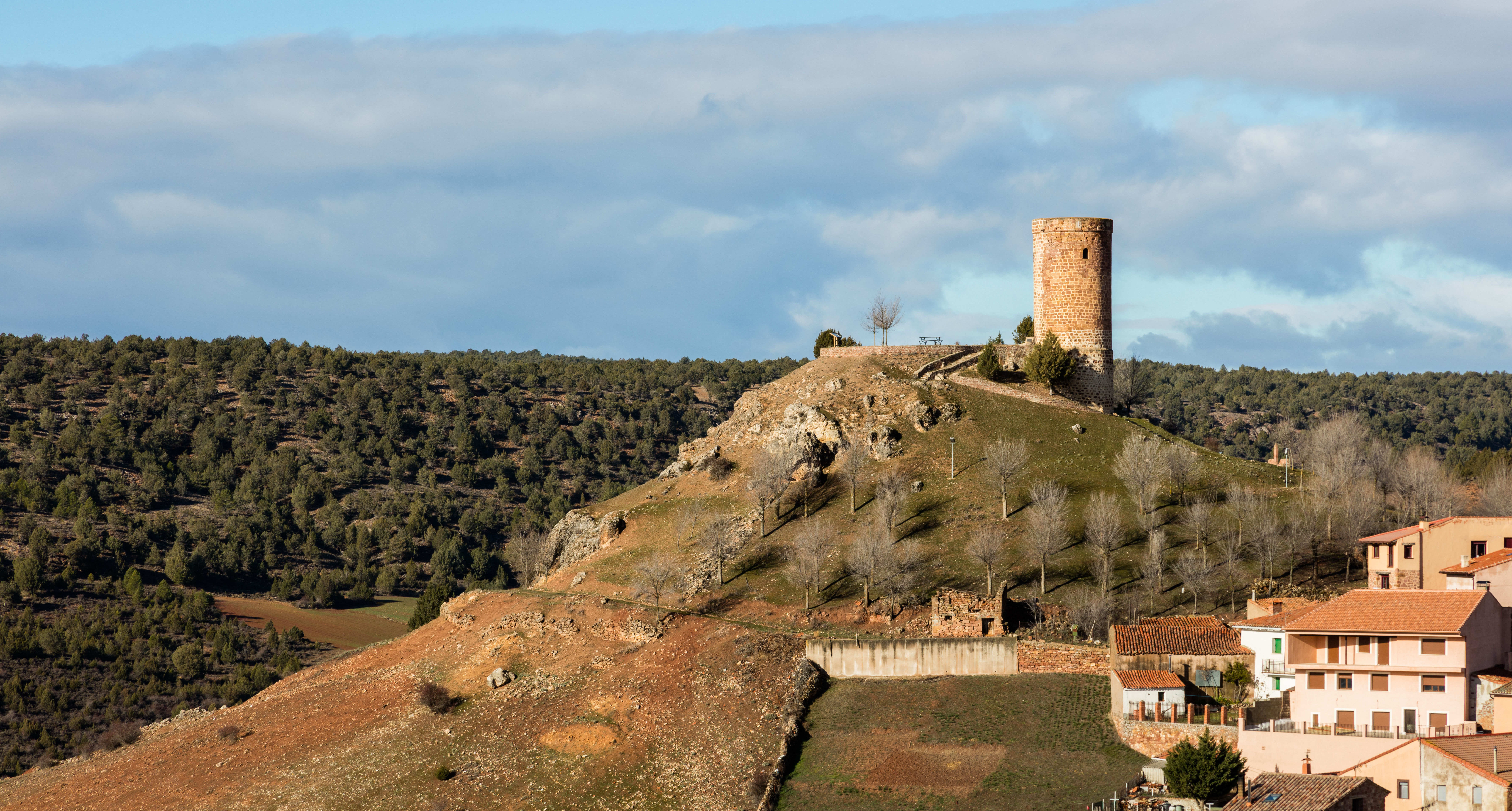 Castle of Cobeta, Guadalajara, Spain